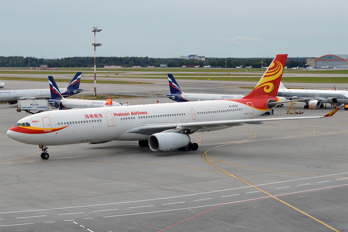 Hainan Airlines, B-6520, Airbus A330-343